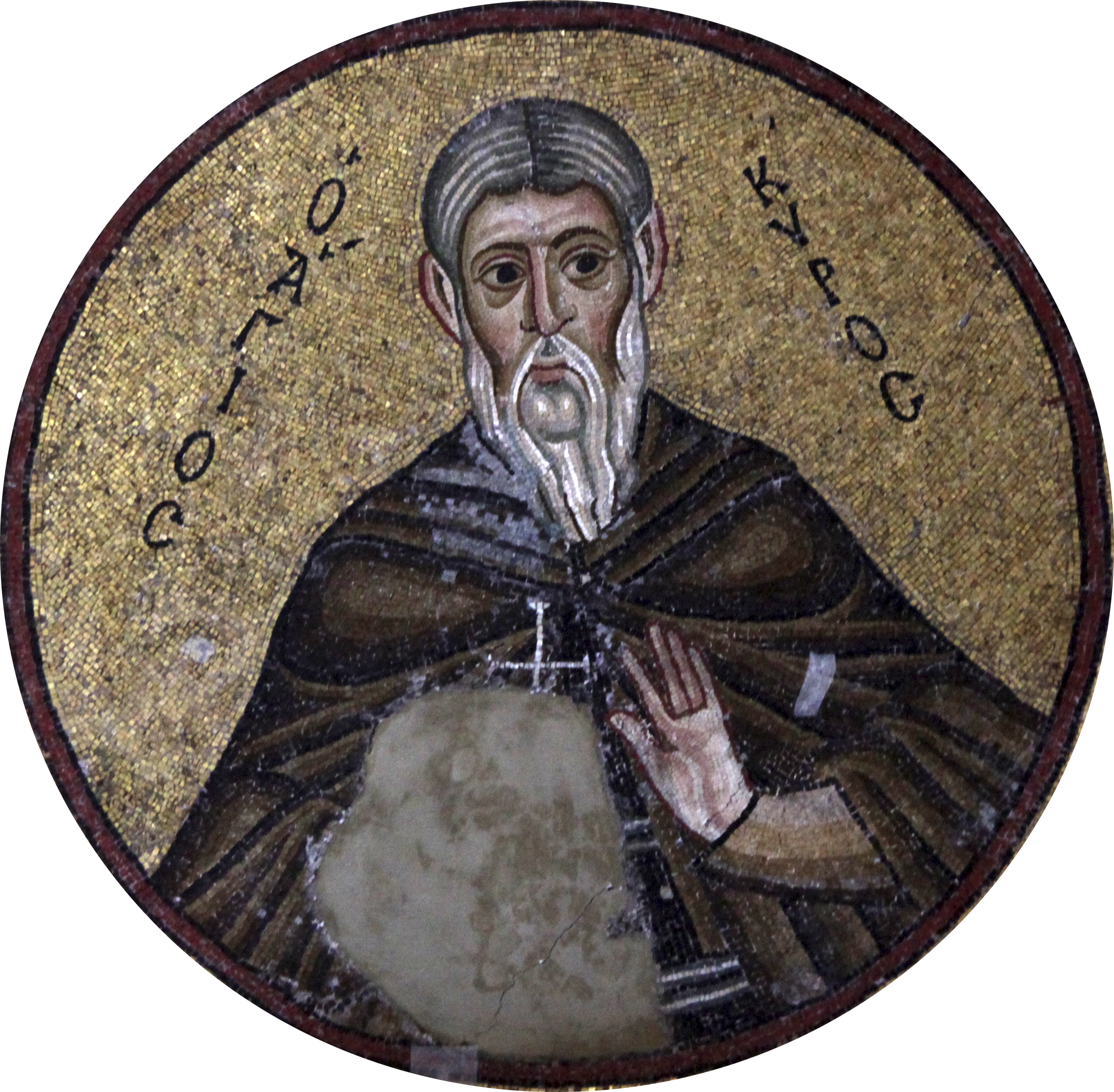 Monastery of Hosios Loukas